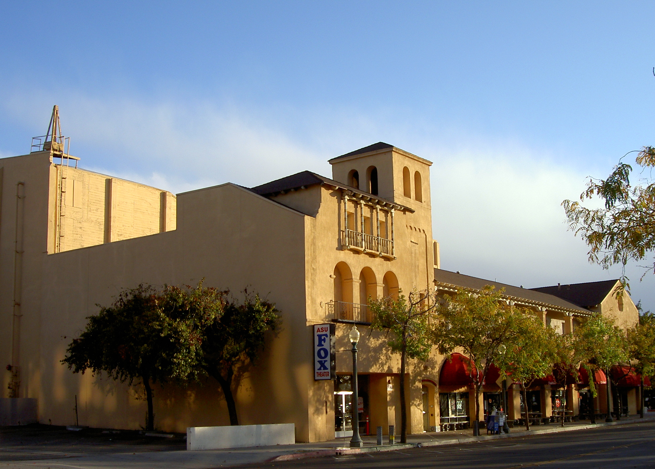 San Bernardino, CA